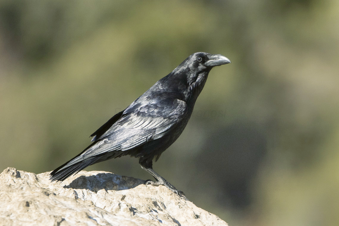 Common Raven - Catalan Pyrenees - Spain_MG_4399